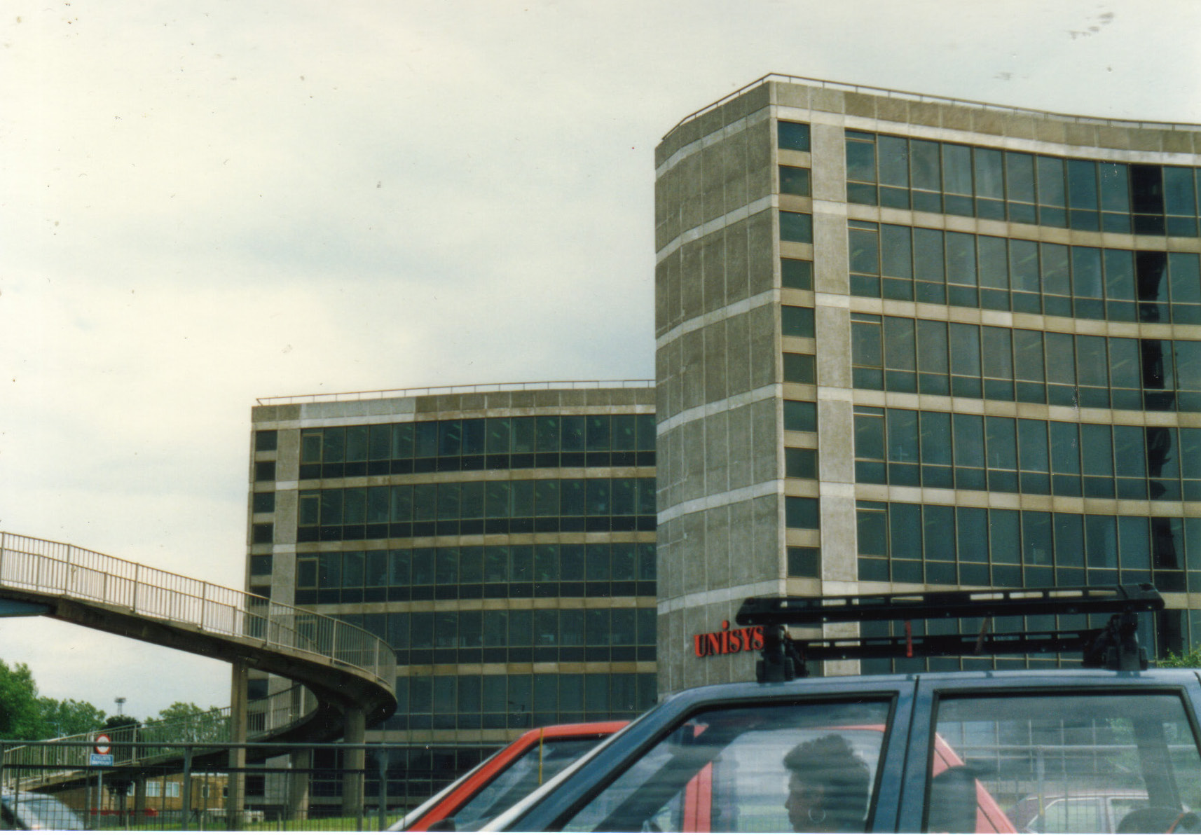 Former Unisys buildings in Stonebridge, circa 1992